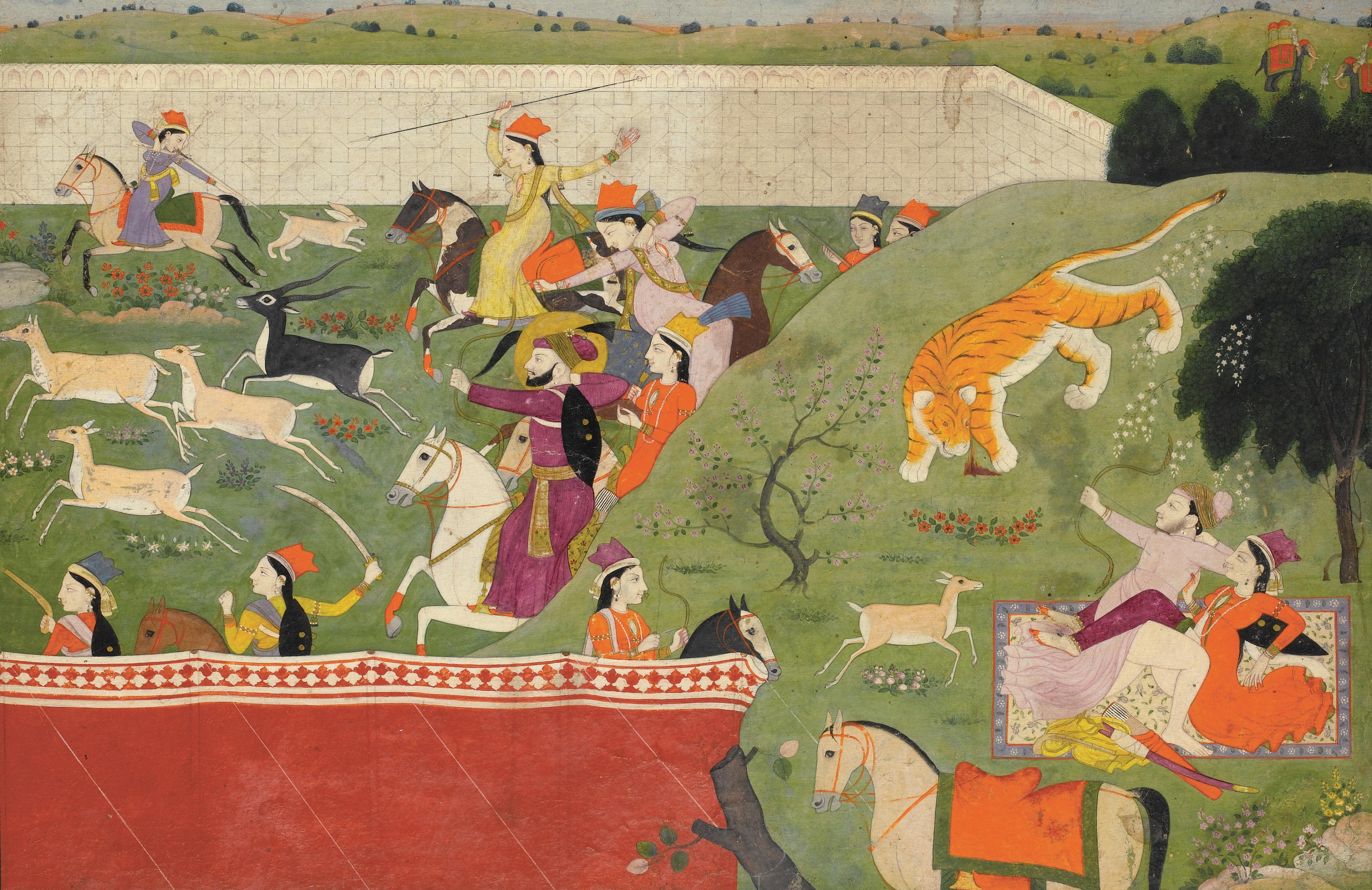 An illustration from the Hamir Hath: Ala-uddin and Mahima hunting a tiger while in an intimate relationship, Punjab Hills, India, circa 1790. Estimate: 8,000 - 12,000 GBP LOT SOLD. 10,000 GBP (Hammer Price with Buyer's Premium) Opaque watercolour heightened with gold on paper 20 by 30 cm. (8 by 11 3/4 in.)